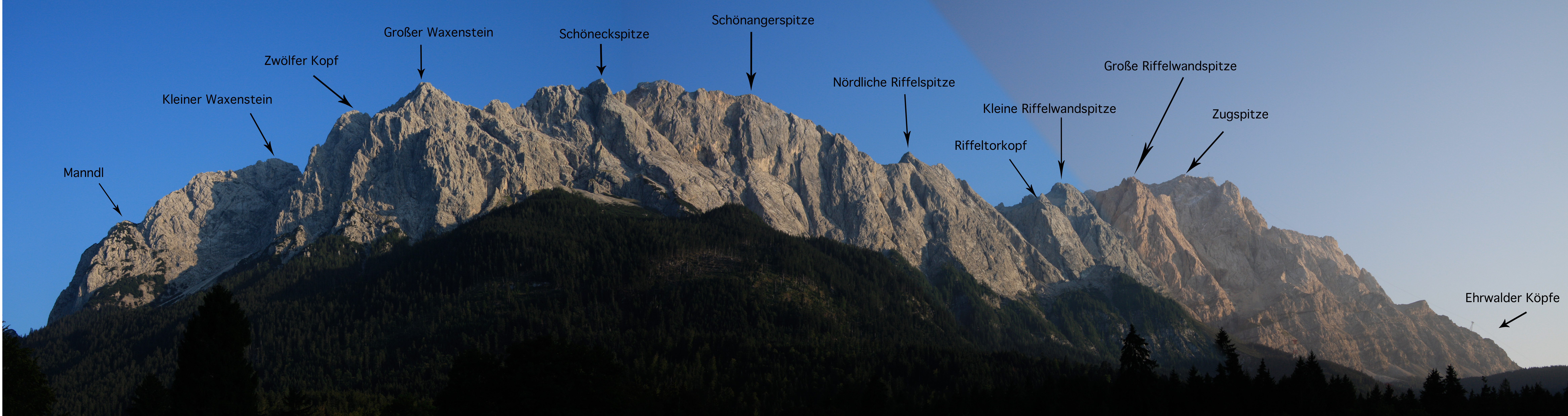 Zugspitze, Riffelwand- and Waxensteinkamm